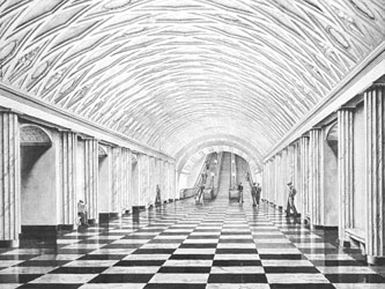 The project of "Teatralnaya" metro station in 1941. Moscow Metro.